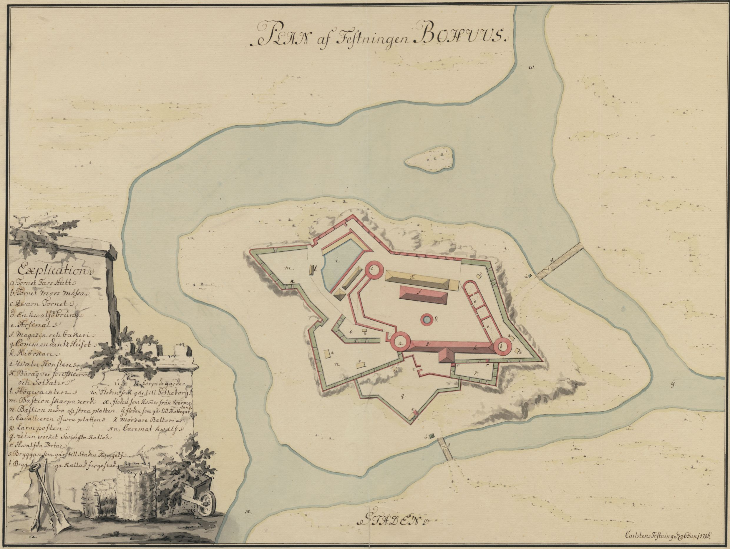 Bohus fortress 1726. The drawing is a copy made approximately 1790.